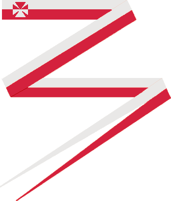 Polish Navy commissioning pennant